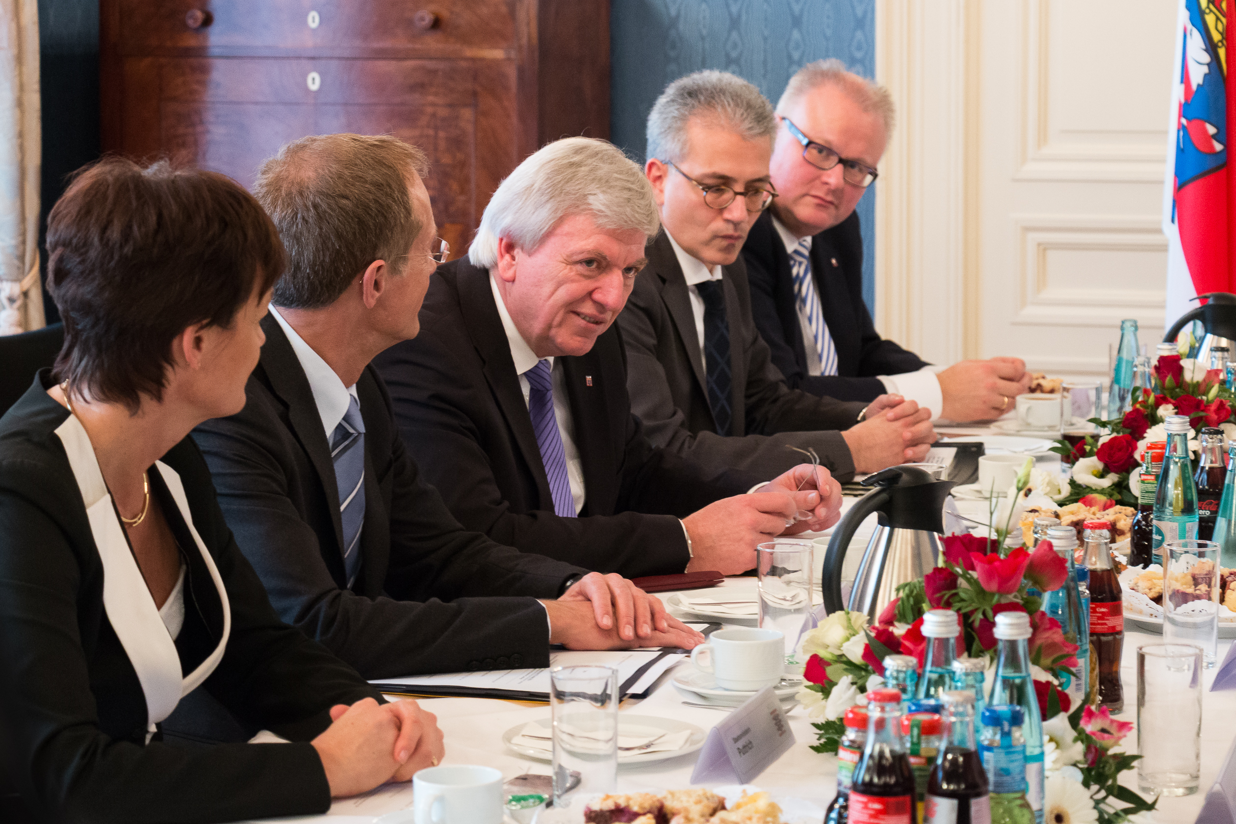 The first meeting of the Cabinet Bouffier II of the black-green coalition in Hesse